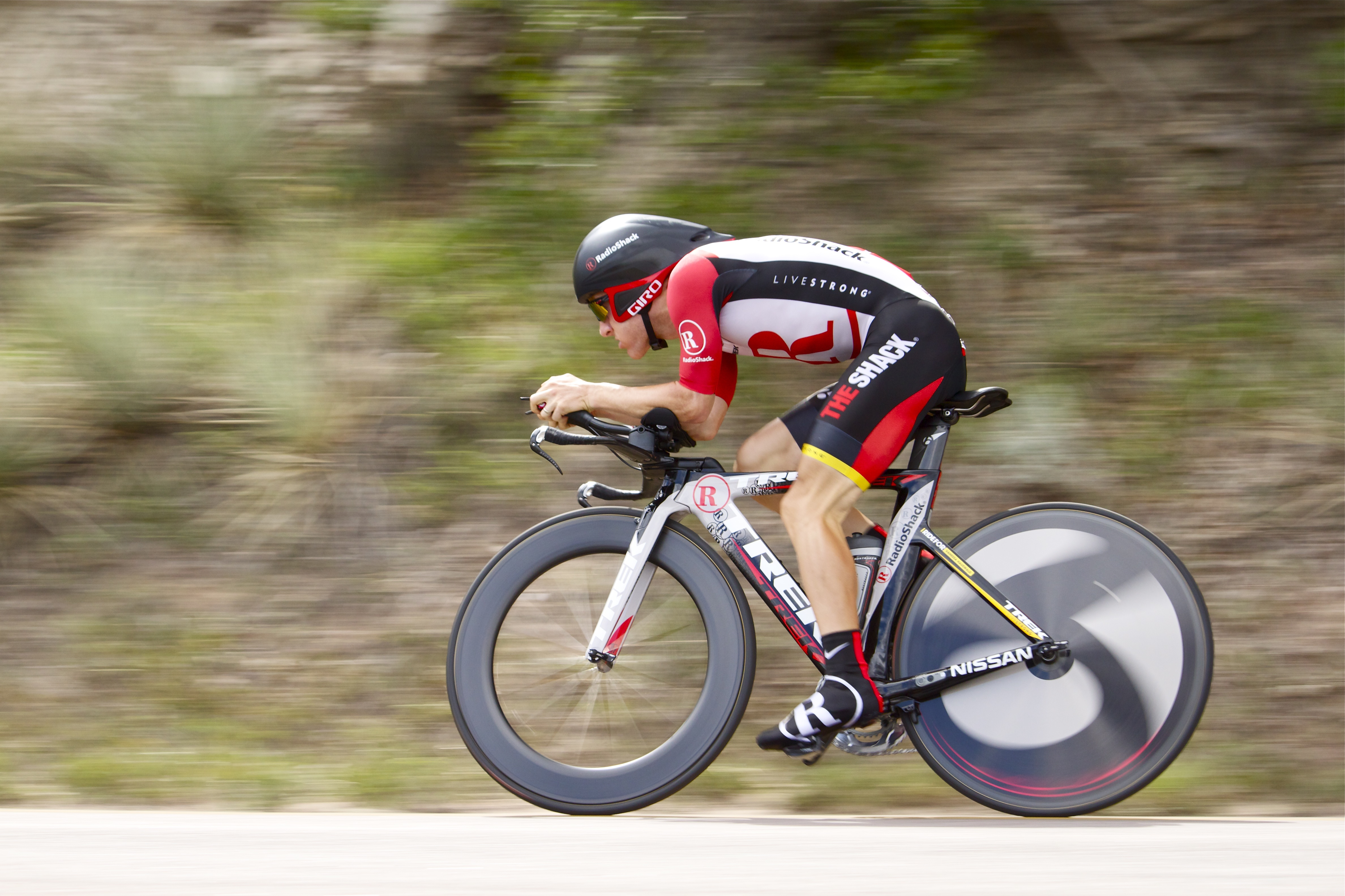 Levi Leipheimer, in the prologue of the USA Pro Cycling Challenge 2011